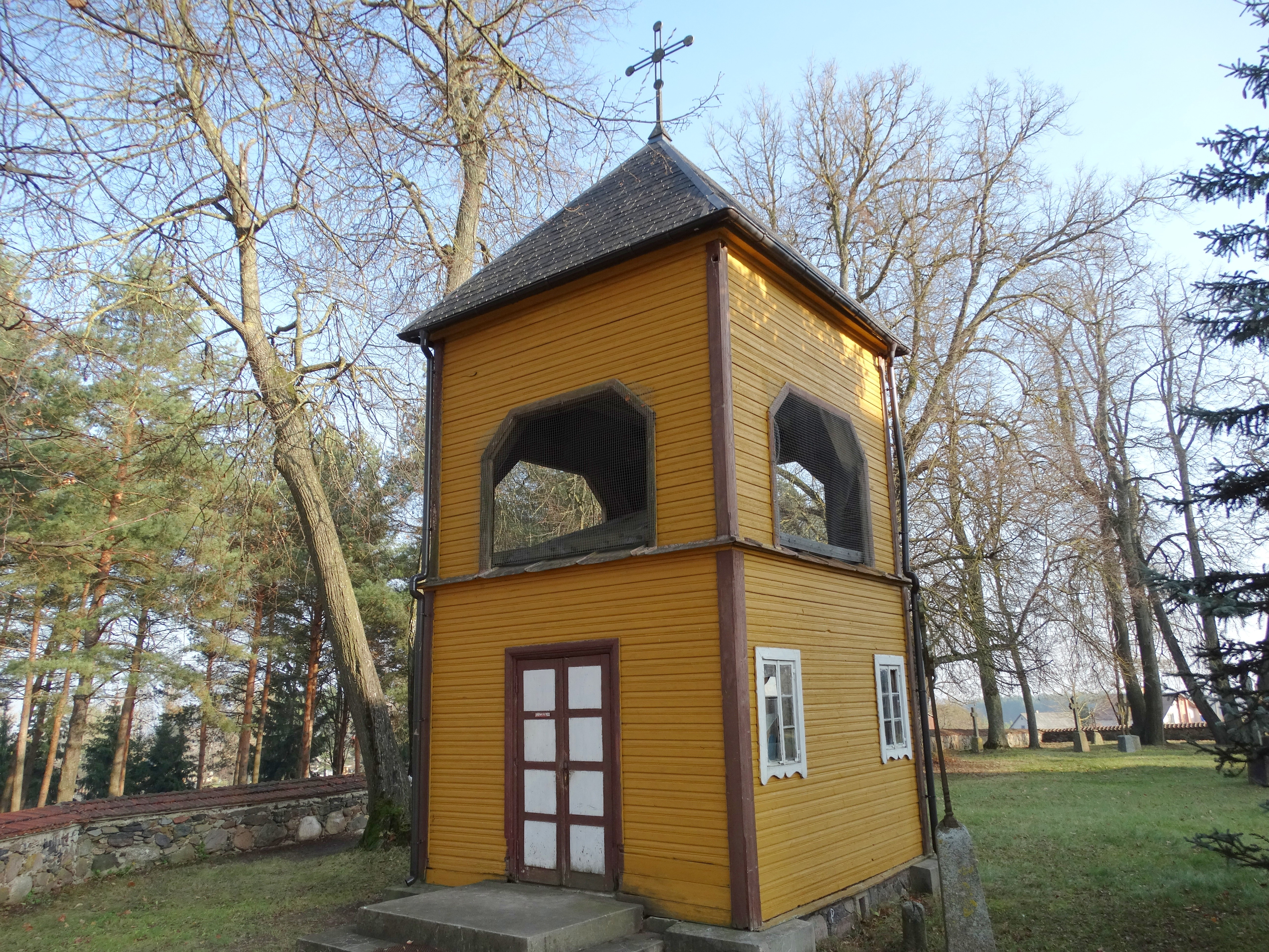 Belfry, Daujėnai, Pasvalys District, Lithuania